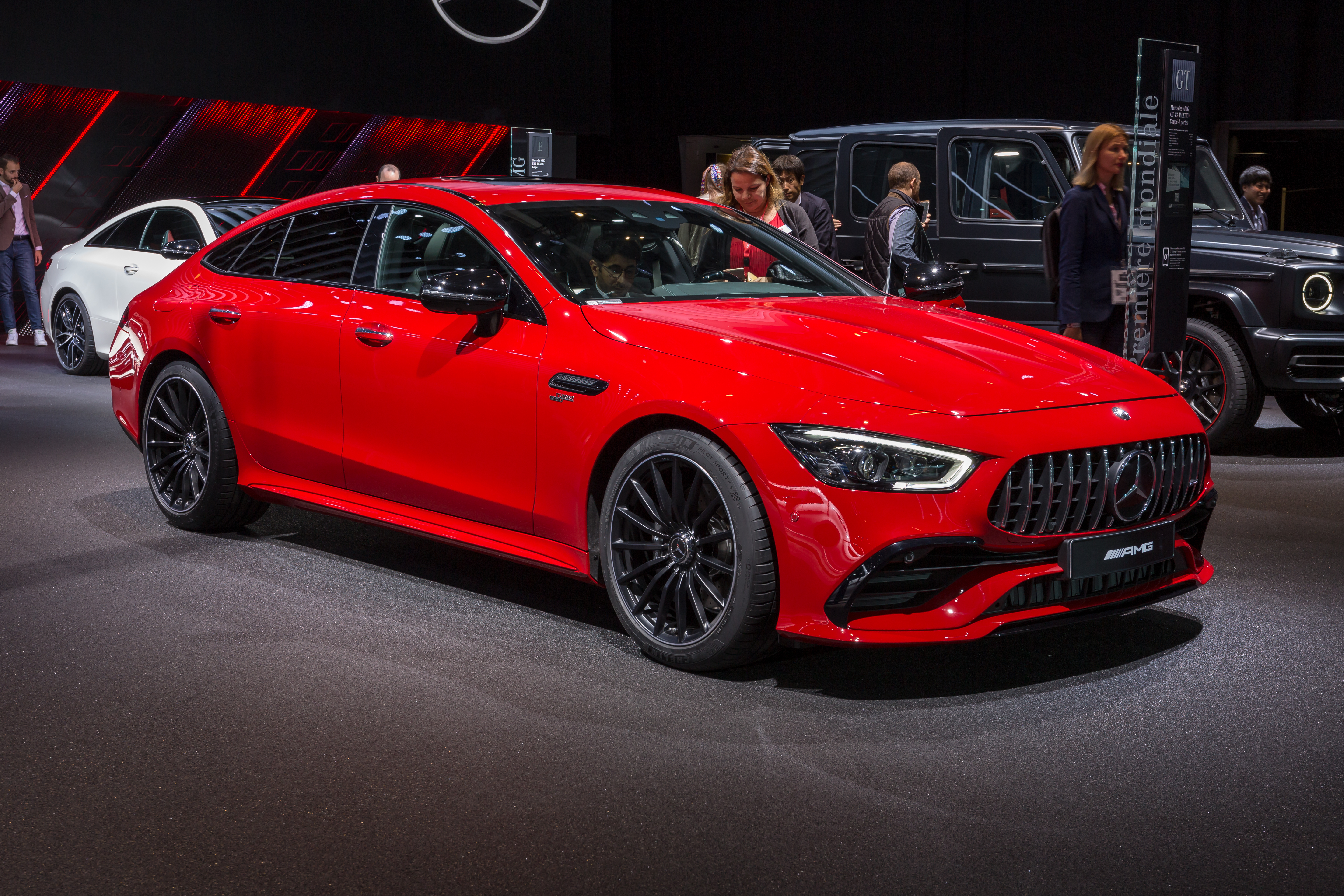 Paris Motor Show 2018